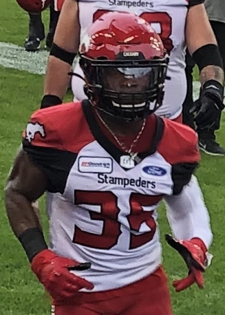 Ka'Deem Carey, running back for the Calgary Stampeders.